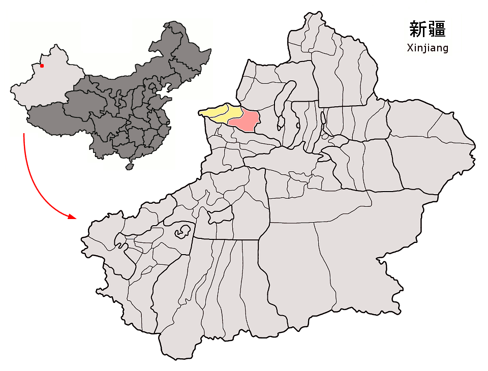 Location of Jinghe County (pink) and Börtala Prefecture (yellow) within Xinjiang autonomous region of China Map drawn in september 2007 using various sources, mainly : Xinjiang Uygur autonomous region administrative regions GIS data: 1:1M, County level, 1990 Xinjiang Counties map from